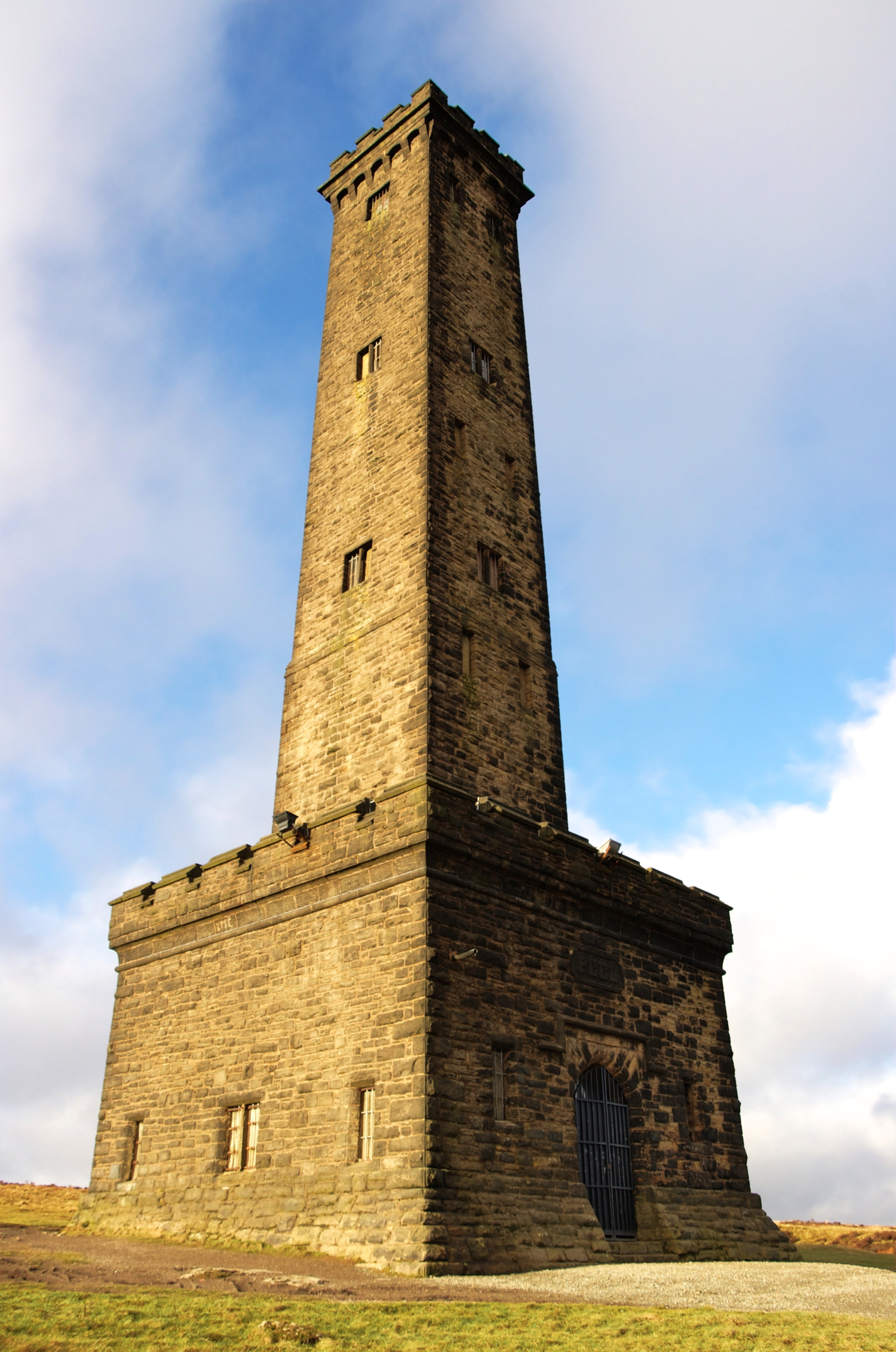 Peel Monument, near Ramsbottom, Greater Manchester.